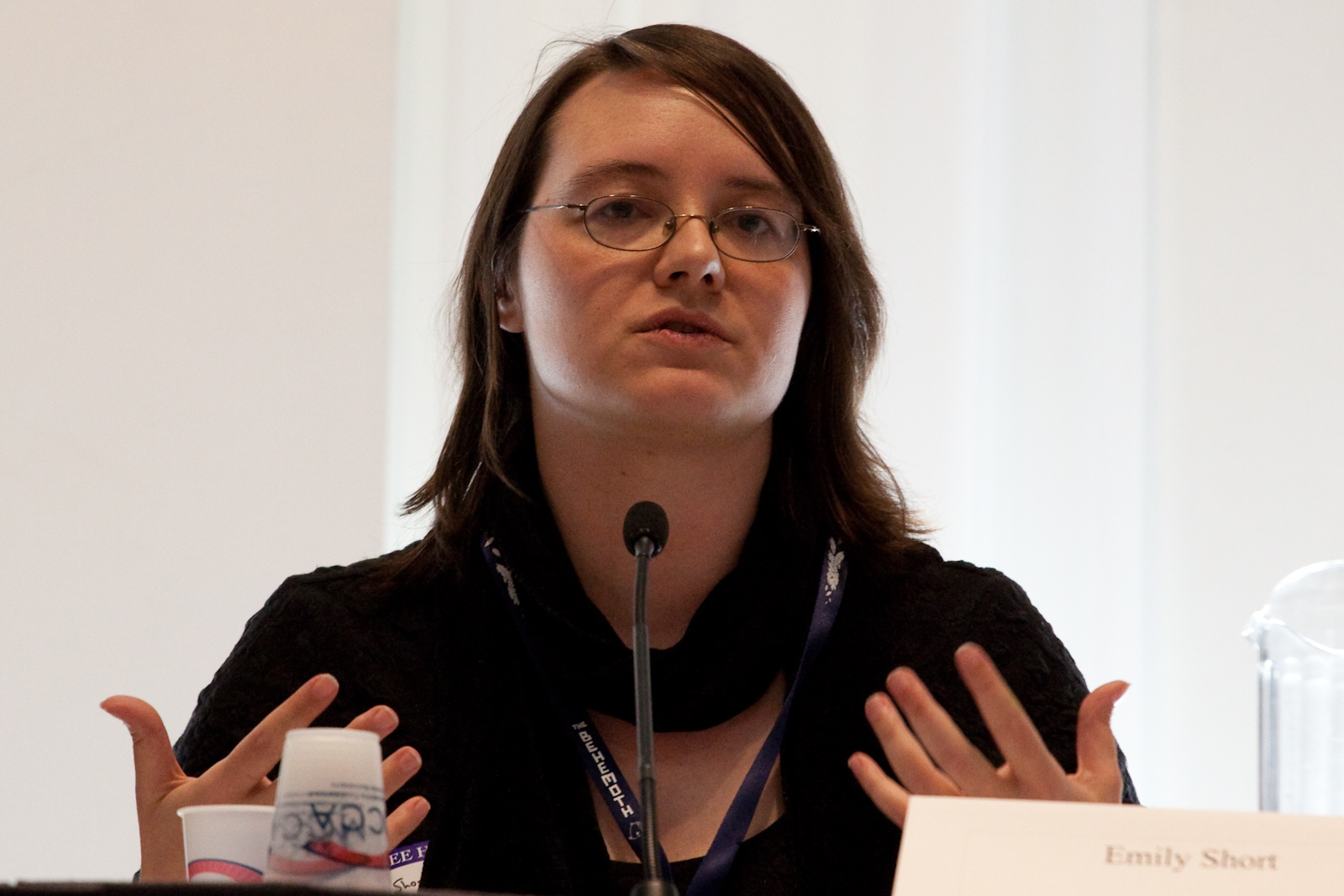 Interactive fiction writer Emily Short at PAX East, Boston.